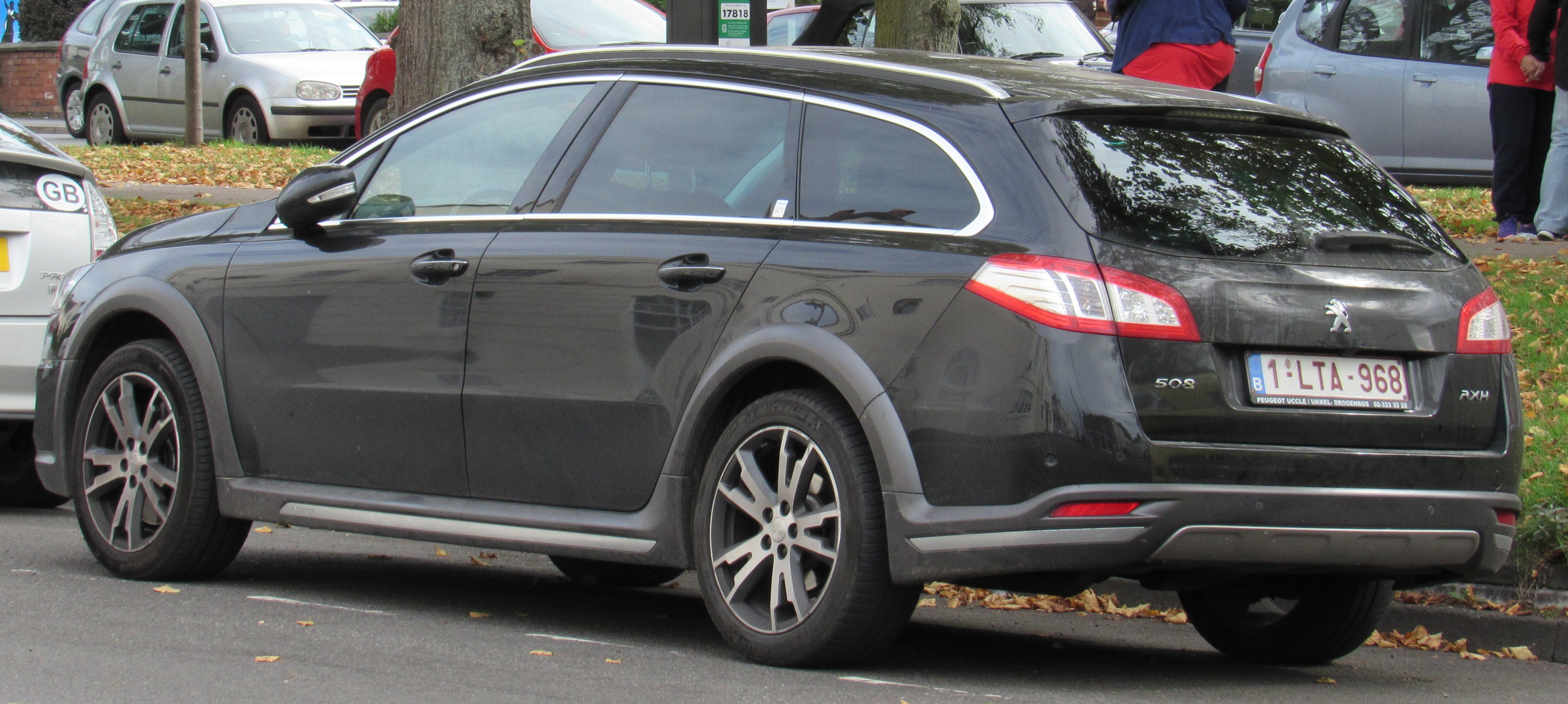 Peugeot 508 RXH 2.0 Facelift Rear Taken in Leamington Spa